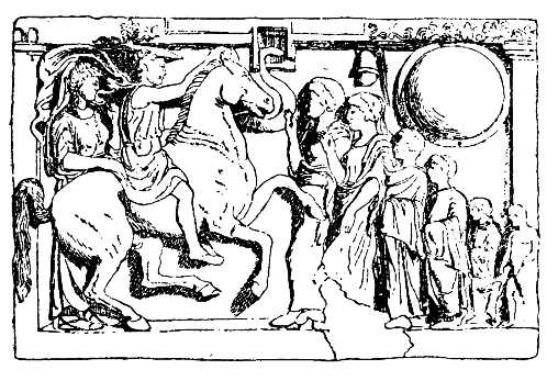 The worship of a Hero. Relief from Cumae from 400 BC. Now in Berlin.